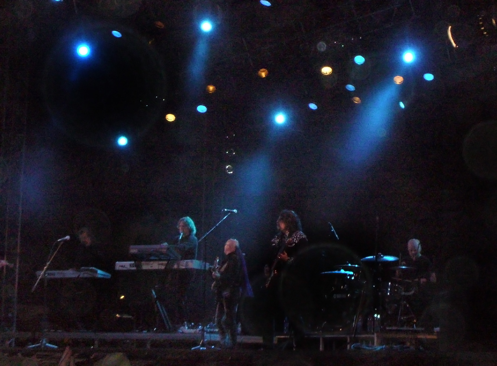 English rock band Electric Light Orchestra at the Sweden Rock Festival, 2008.